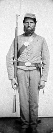 Copy photo made by LC in 1961 of an ambrotype made between 1860 and 1865. Credit: Mr. G.K. Holmes, Cornwall Bridge, Connecticut